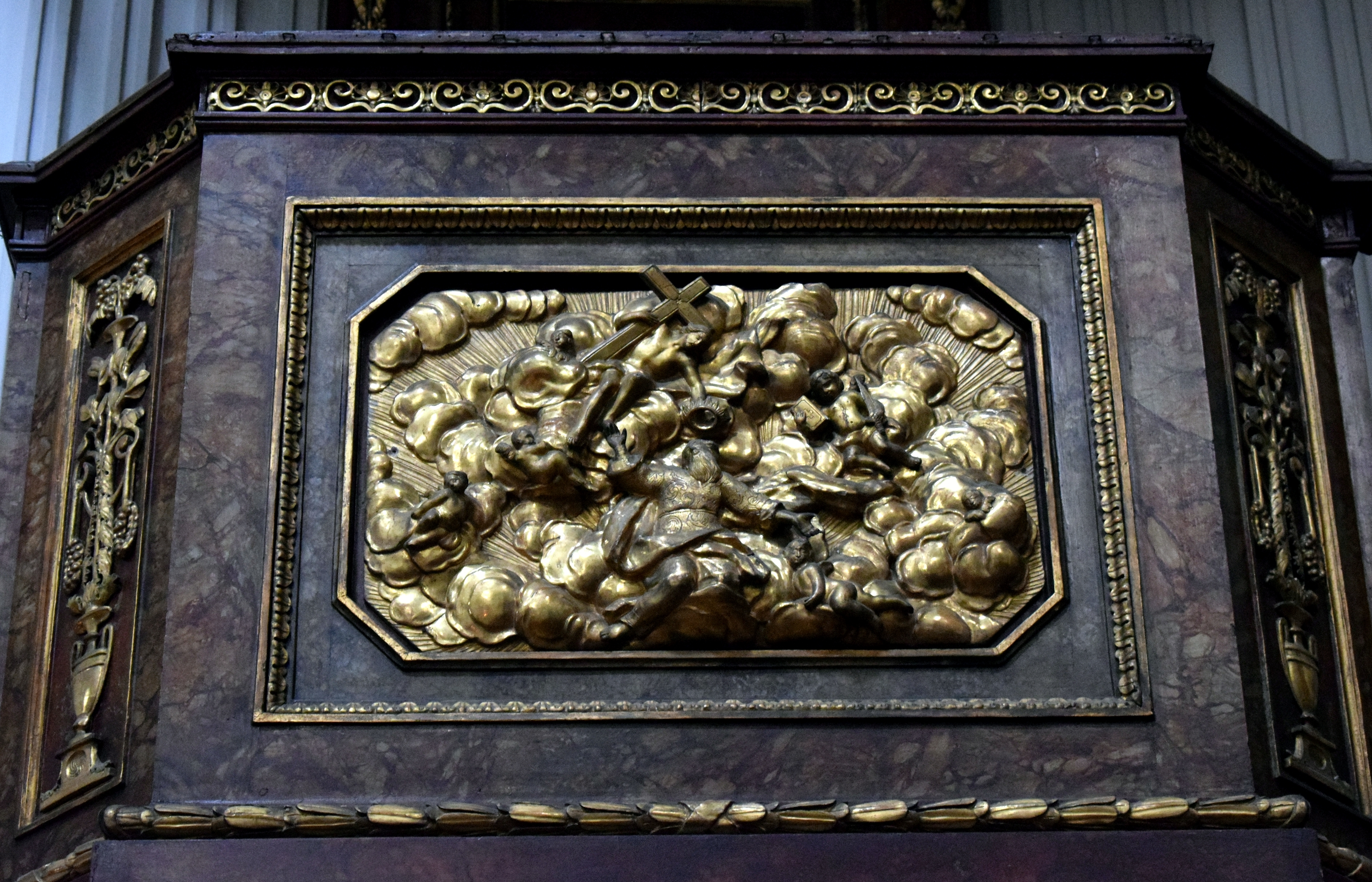 Christ crowning St Paul in Heaven with the crown of the martyrs surrounded by cherubs, one of them holding a book and a knife. Gilt wood relief on the pulpit of Mariahilfer Kirche in Vienna. Probably part of the original structure by Antonio Beduzzi and Ignaz Michael Gunst (1720).